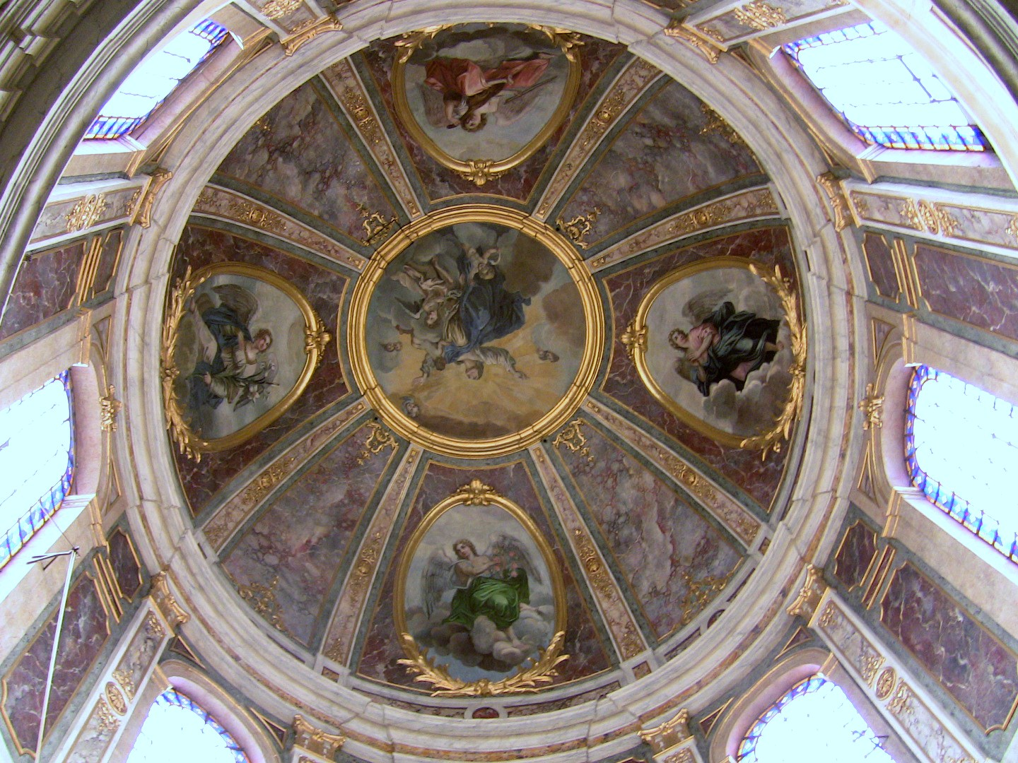 Dome of the Chapelle Notre-Dame du Foyer of Besançon (Doubs, France)